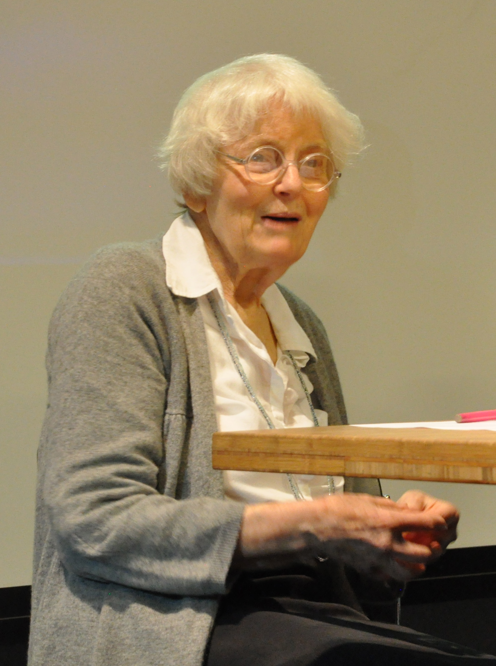 Denise Scott Brown on her 81st birthday